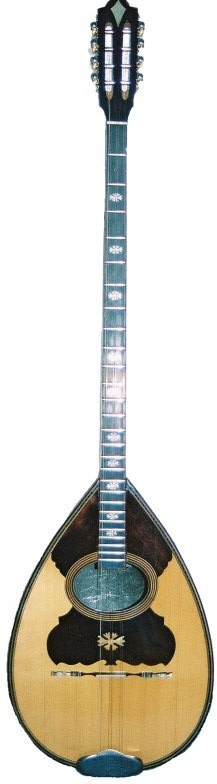 Photograph of bouzouki. "The three-course bouzouki (trichordo) This is the classical type of bouzouki that was the mainstay of most Rebetiko music. It has fixed frets and it has 6 strings in three pairs. In the lower-pitched (bass) course, the pair consists of a thick wound string and a thin string tuned an octave apart. The conventional modern tuning of the trichordo bouzouki is Dd-aa-dd. This tuning was called the "European tuning" by Markos Vamvakaris, who described several other tunings, or douzenia, in his autobiography. The illustrated bouzouki was made by Karolos Tsakirian of Athens, and is a replica of a trichordo bouzouki made by his grandfather for Markos Vamvakaris and became more famous from Manolis Chiotis. The absence of the heavy mother of pearl ornamentation often seen on modern bouzoukia is typical of bouzoukia of the period. It has tuners for eight strings, but has only six strings, the neck being too narrow for eight. The luthiers of the time often used sets of four tuners on trichordo instruments, as these were more easily available, since they were used on mandolins.[citation needed]" —Bouzouki#The three-course bouzouki (trichordo)